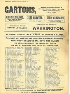 One page from seed catalogue listing royal and other distinguished patrons